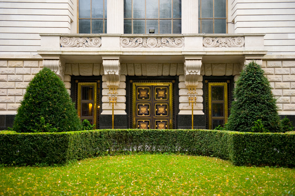 Embassy of the Russian Federation in Berlin, Unter den Linden 63-65, 10117 Berlin